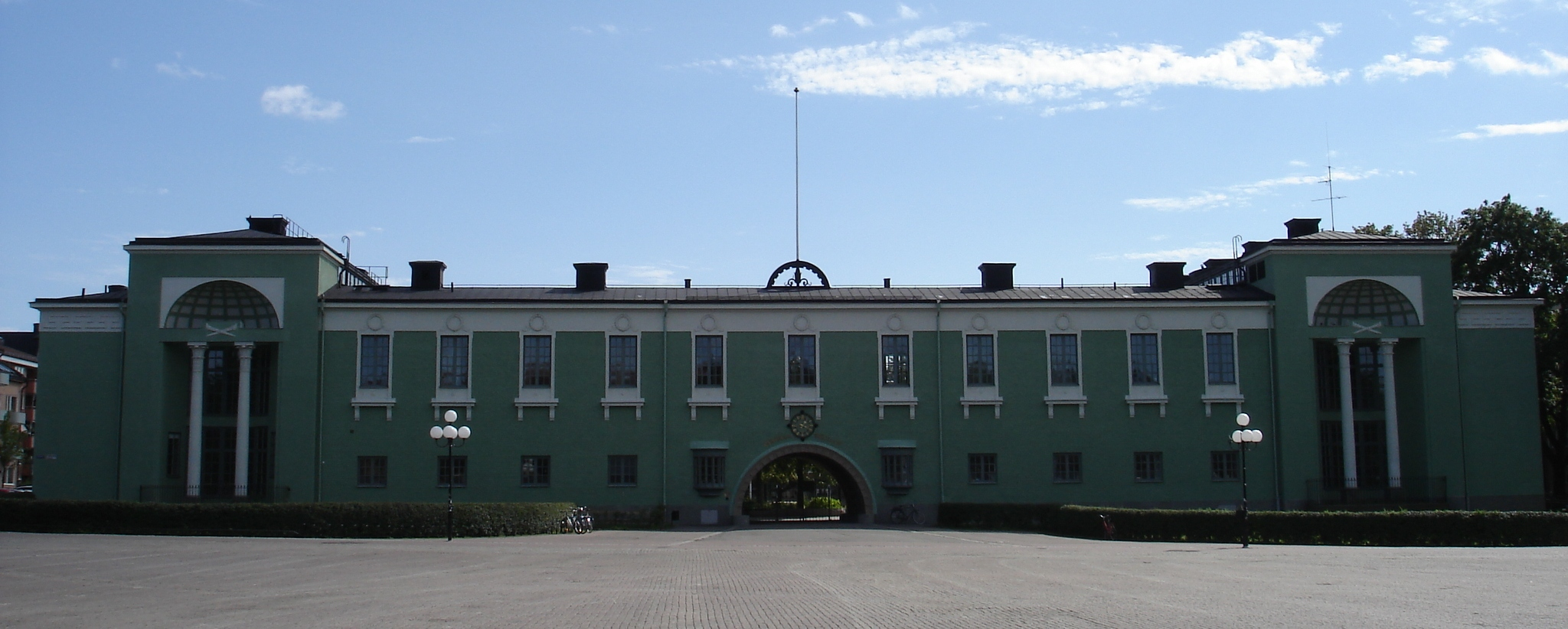 Vaksalaskolan, a school in Uppsala, Sweden.